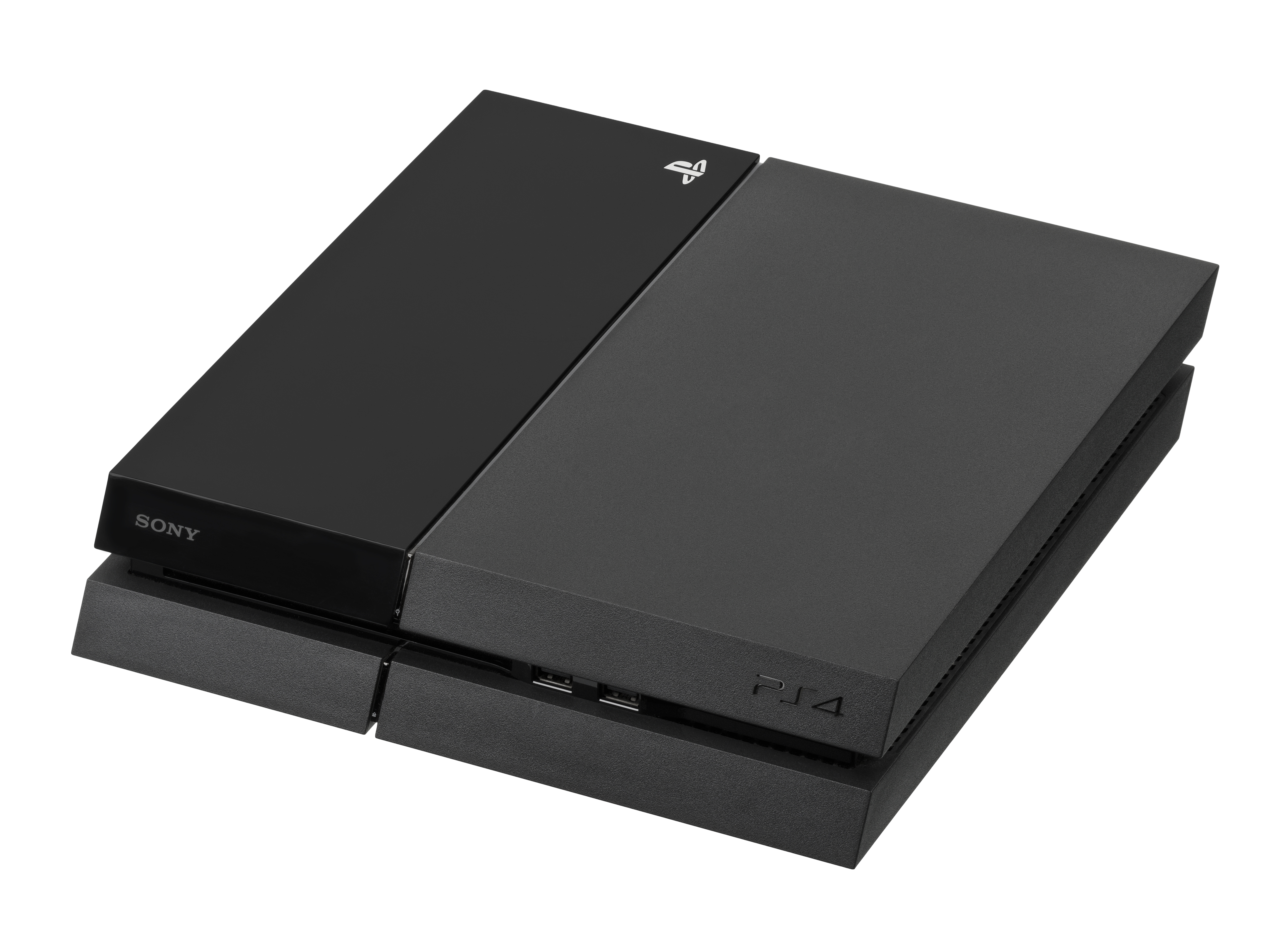 The PlayStation 4 (PS4) gaming console made by Sony. Released on 11-15-2013 in North America it is an eighth generation system and competes with the Microsoft Xbox One and the Nintendo Wii U.